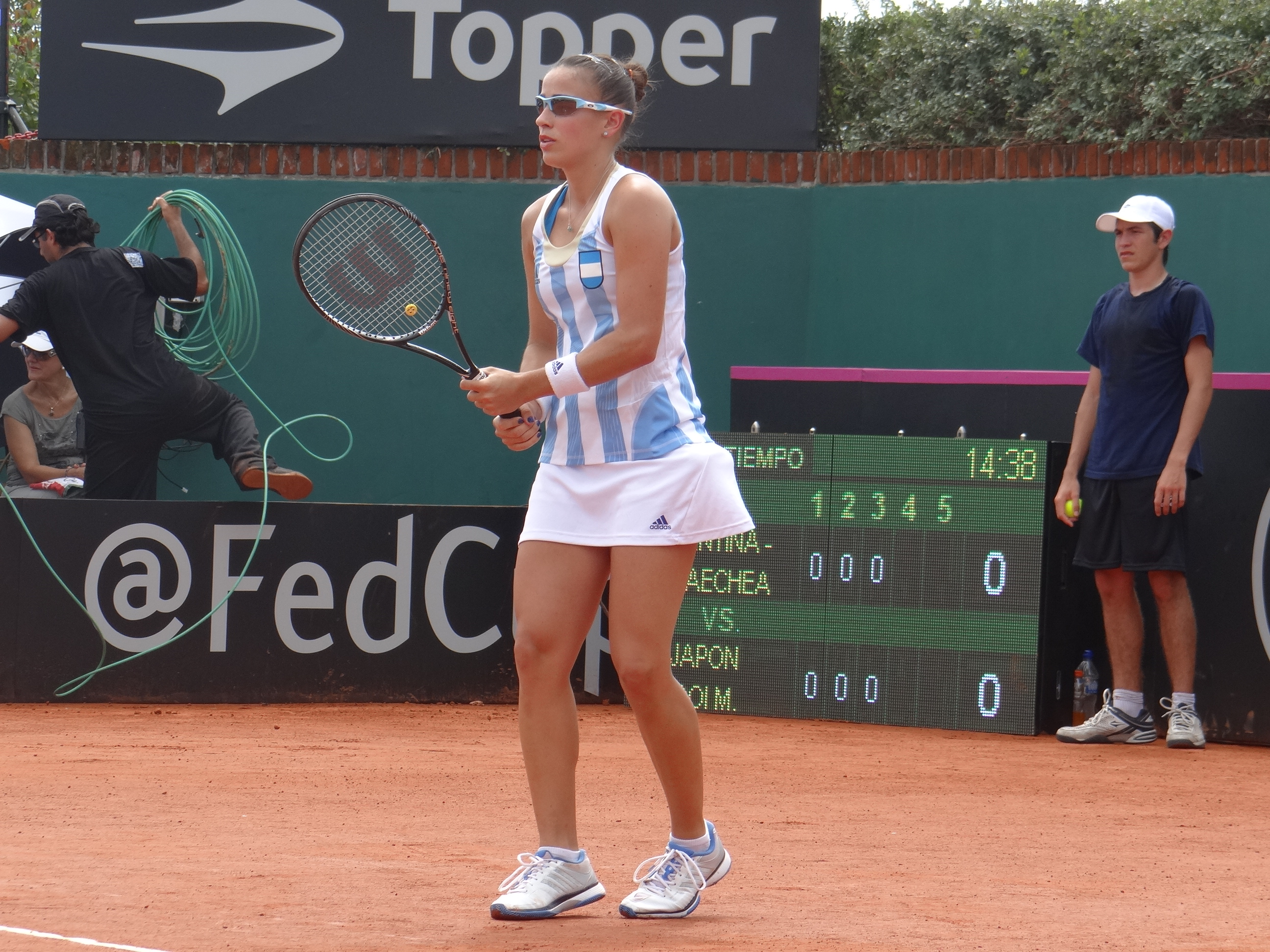 Paula Ormaechea en el segundo partido de la serie Argentina-Japón por el Grupo Mundial II